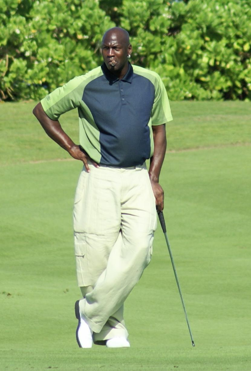 Michael Jordan on the golf course in 2007.